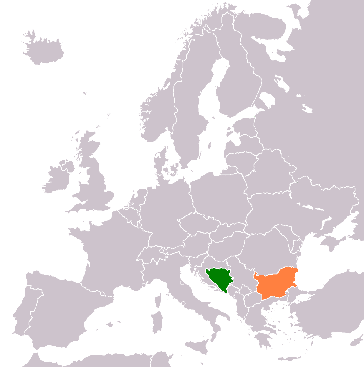 I made this map out of a licence free blank map of Europe.